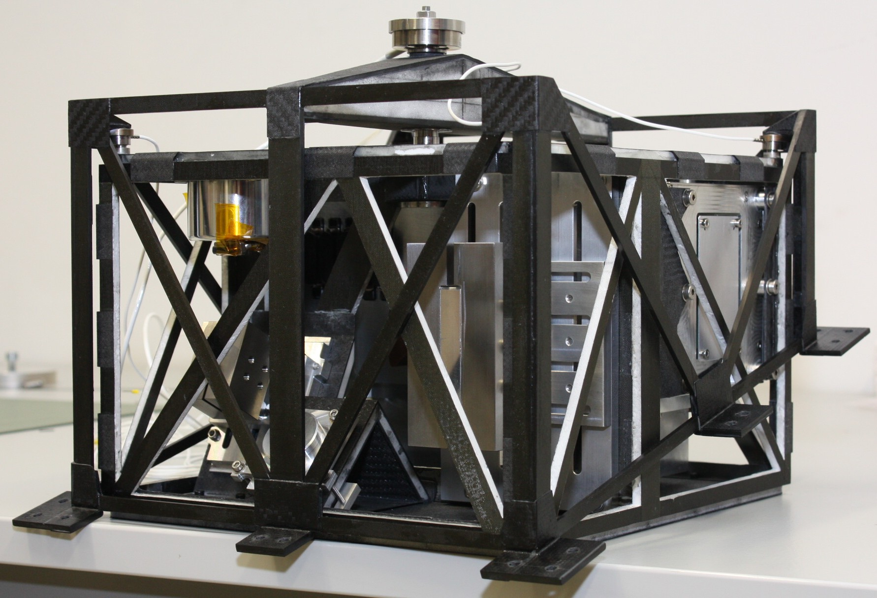 MASCOT - German lander for the Hayabusa 2 mission.